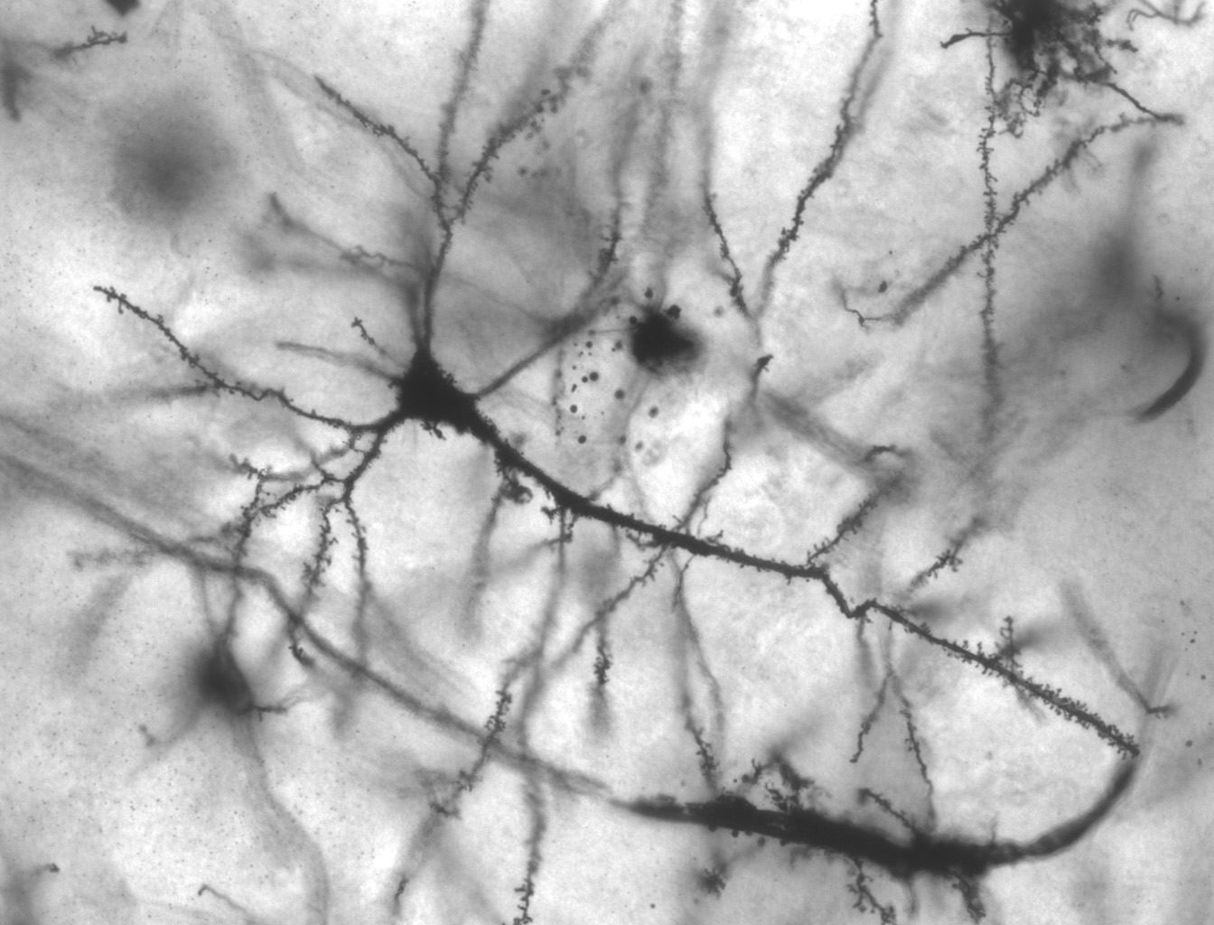 Golgi stained pyramidal neuron in the hippocampus of an epileptic patient. 40 times magnification.